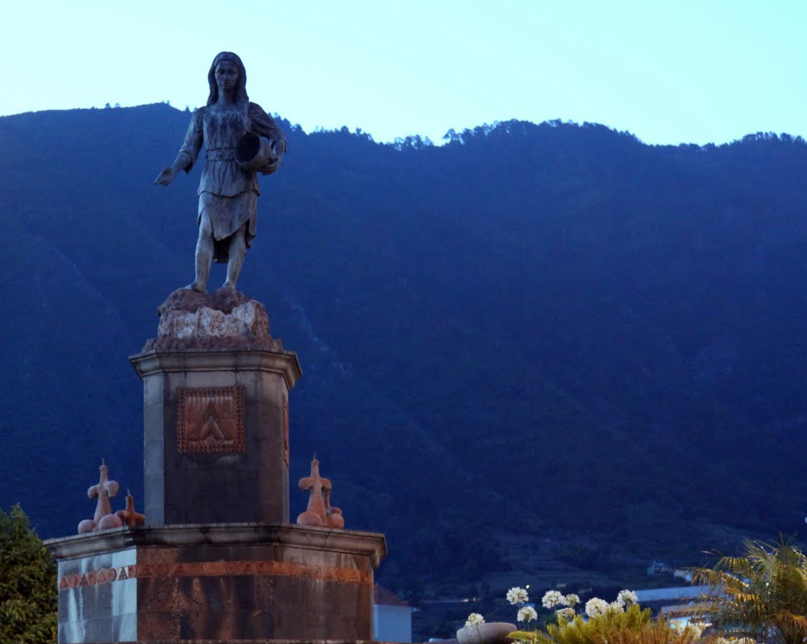 Estatua dedicada a la Princesa Dácil, La Orotava